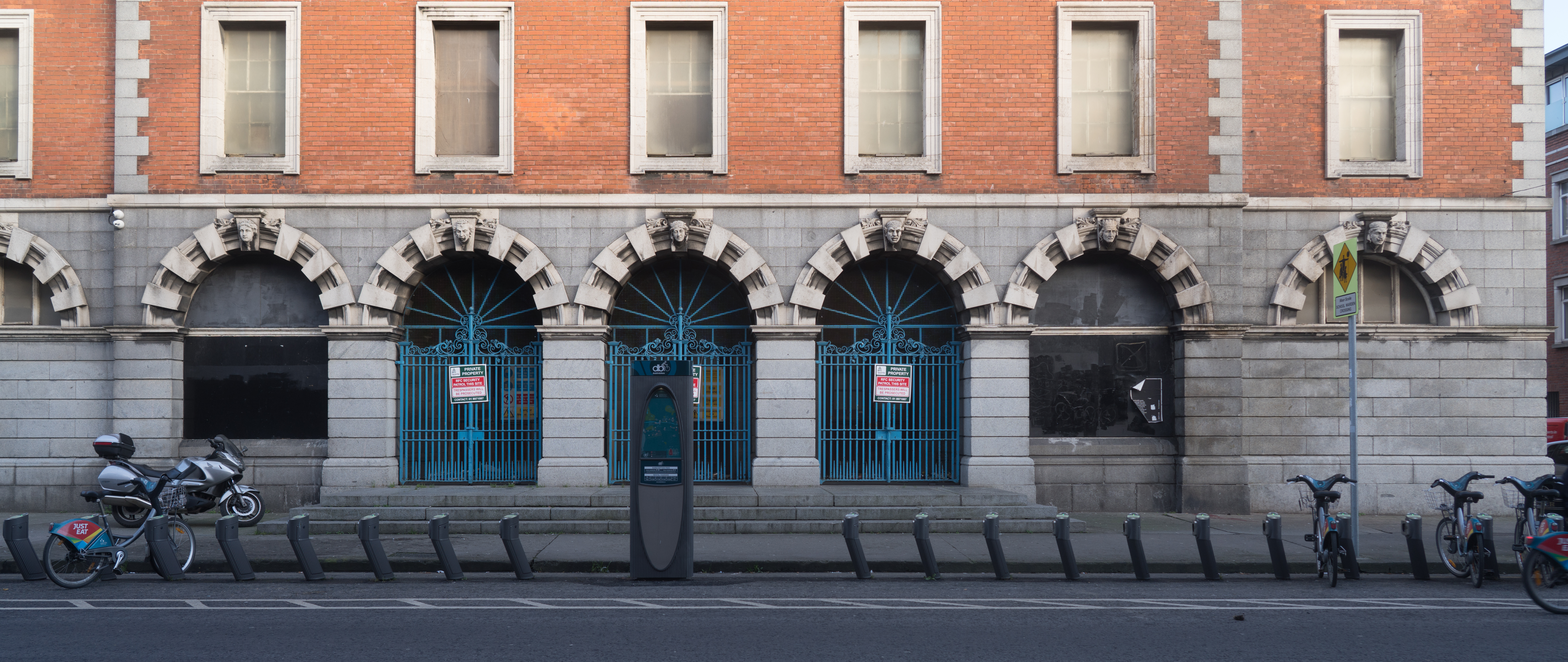 This docking station is located at the Iveagh Markets building on Francis Street in Dublin, Ireland. Temple Bar publican Martin Keane has had planning permission since 2007 to redevelop the market on Francis Street. He had obtained a long-term lease from the City Council in 1997 and had obtained planning permission in 2007 to redevelop the Iveagh Markets Building. Sadly the planning permission expired towards the end of 2017 and councillors voted to recover control of the building.